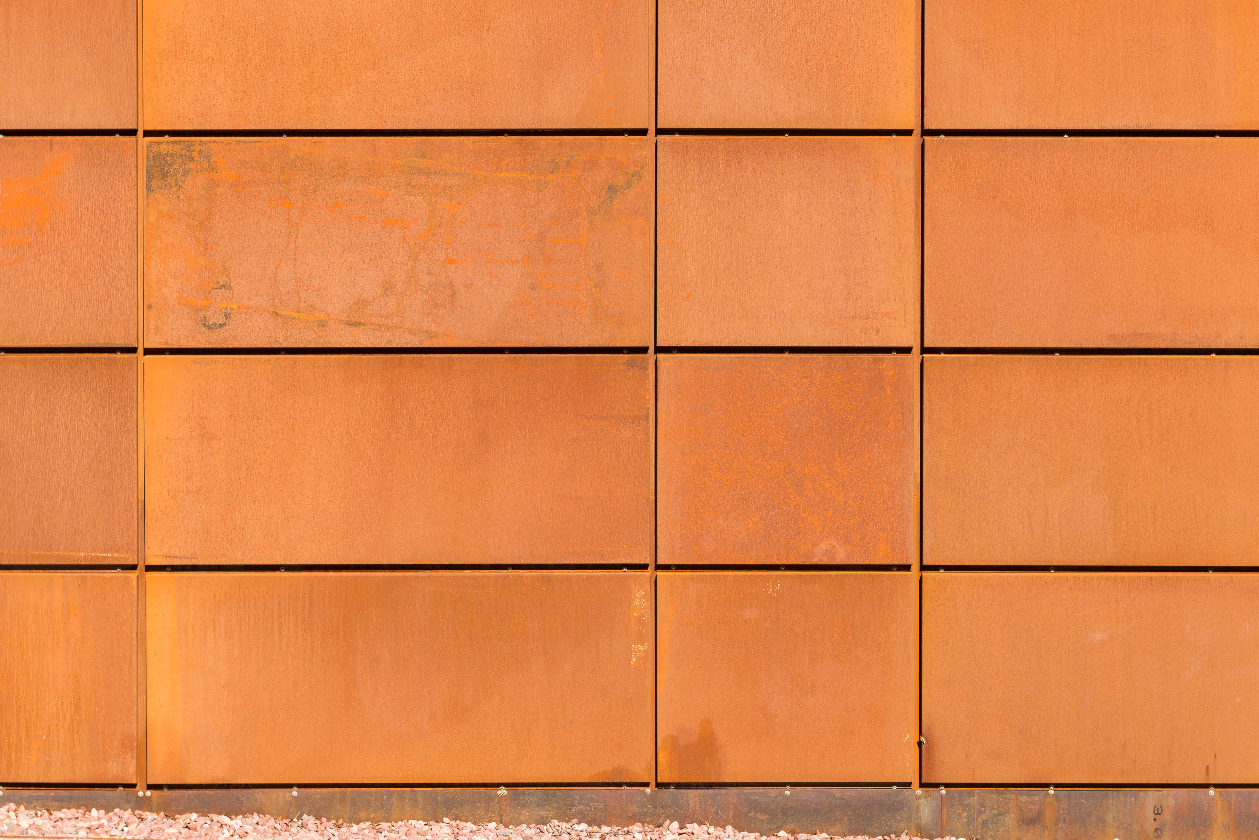 New residential building at Främlingsvägen, in Hägersten (Stockholm). Built 2013. Architects: Brunnberg & Forshed arkitektkontor.